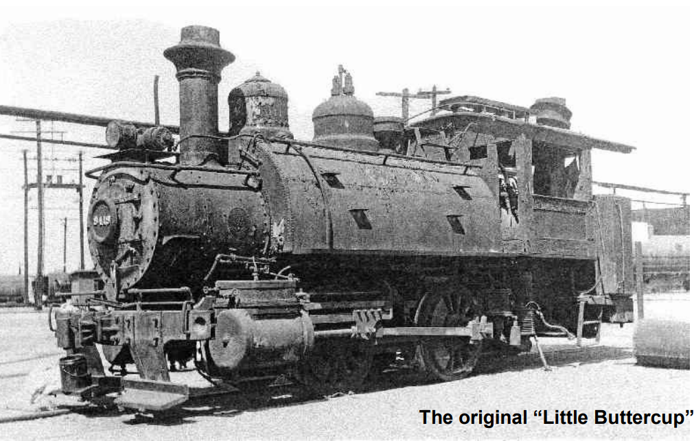 Atchison, Topeka & Santa Fe Railway #2419 "shop goat" at Needles, California. This engine would later be rebuilt to a "Old West" appearence, given the #5 and named "Little Buttercup."